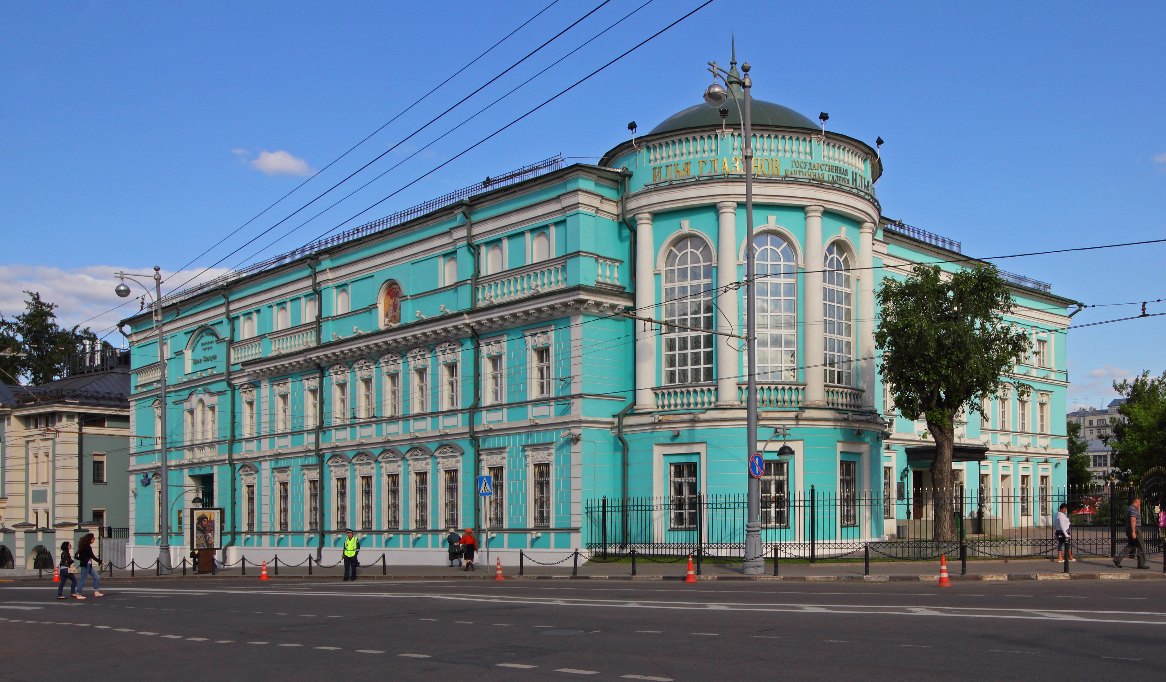 Moscow, Russia. Volkhonka Street. Art Gallery Ilya Glazunov.